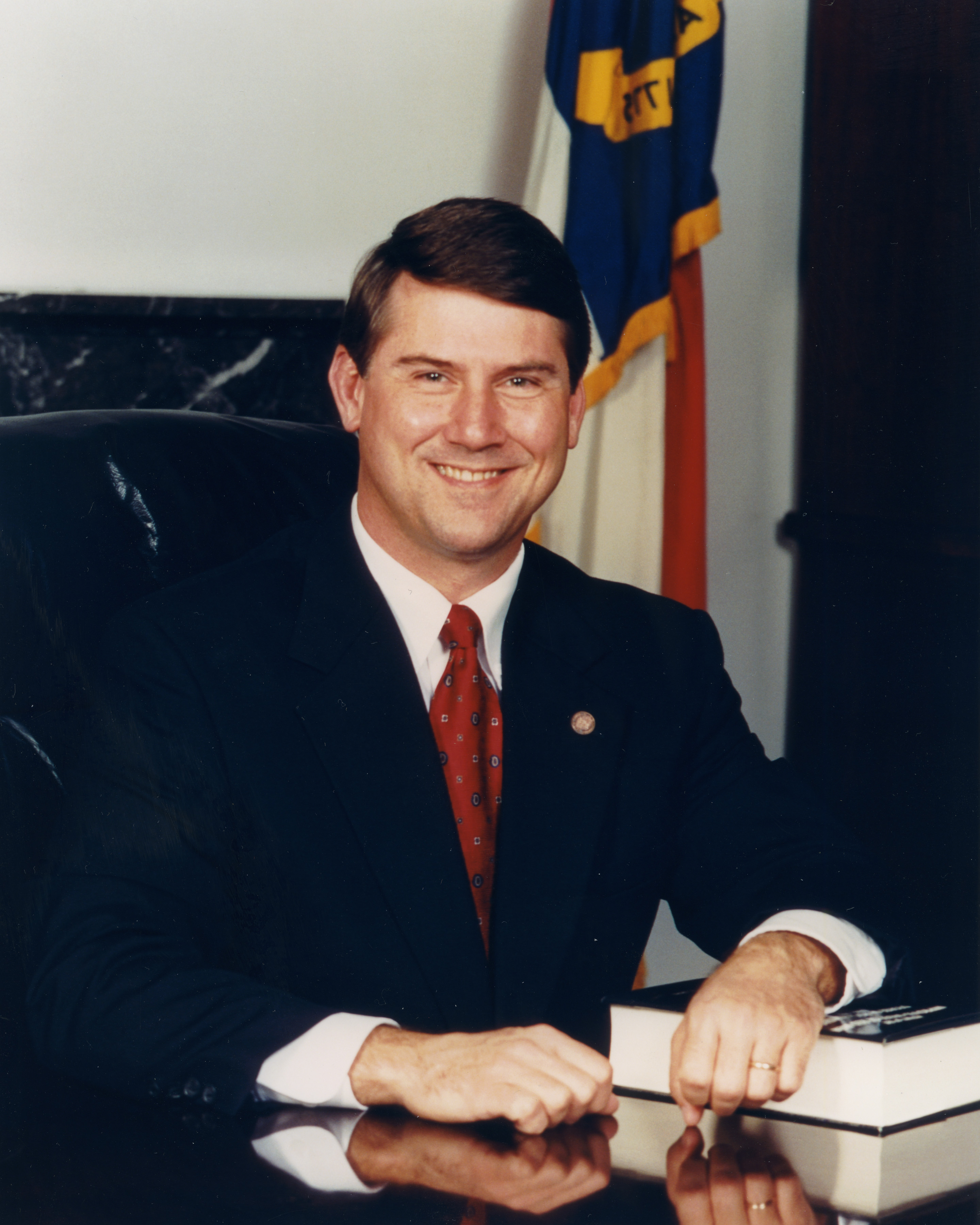 Dennis Wicker, North Carolina Lieutenant Governor 1993-2001. From the general Negative Collection, State Archives of North Carolina.